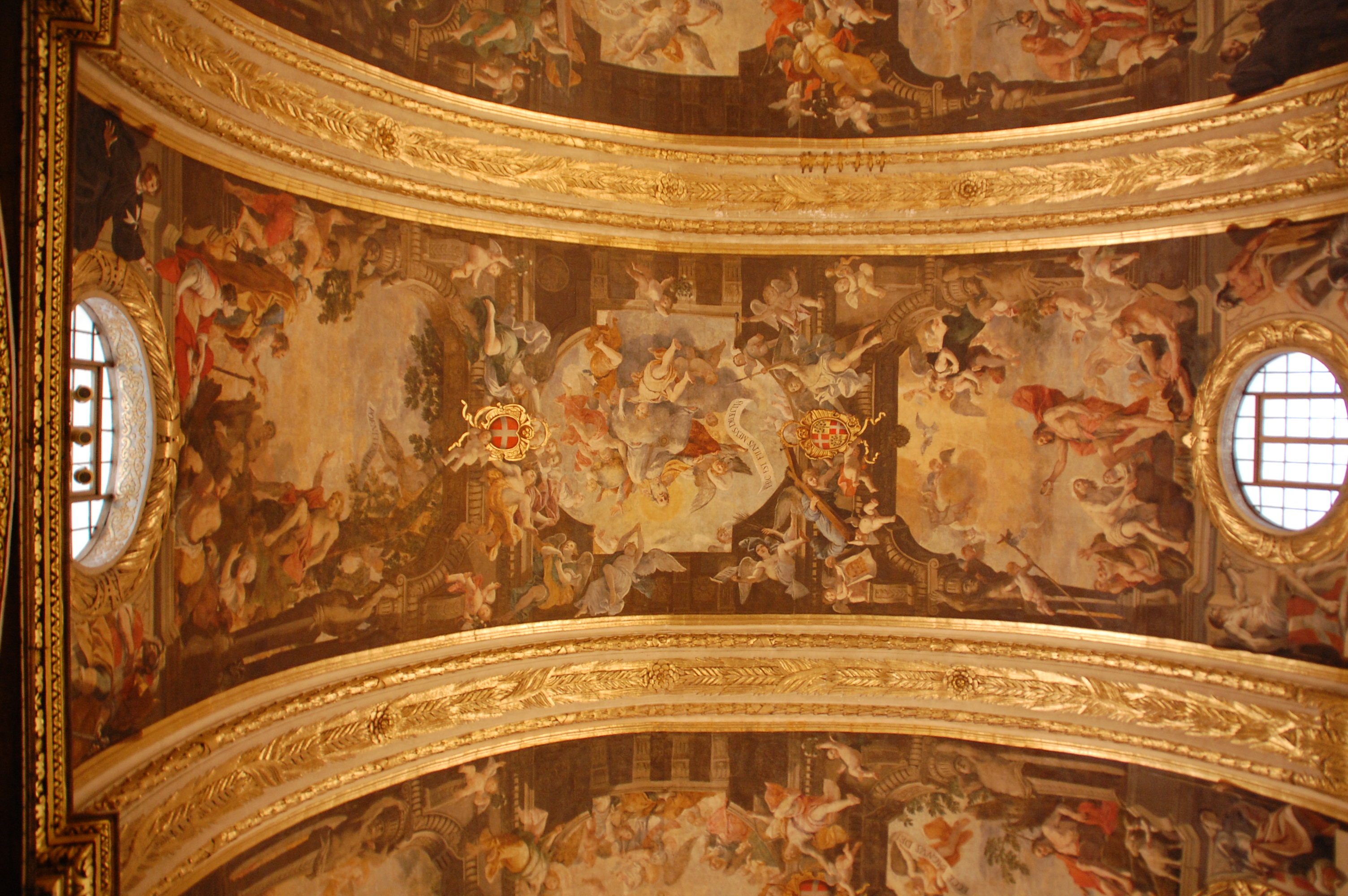 Detail from St John's Co-Cathedral, Valletta, Malta